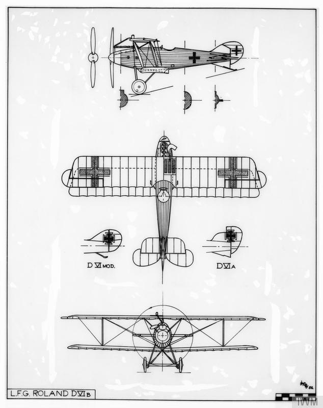 Technical Drawings of the First World War Aircraft General arrangement drawing of LFG Roland D.VI b.